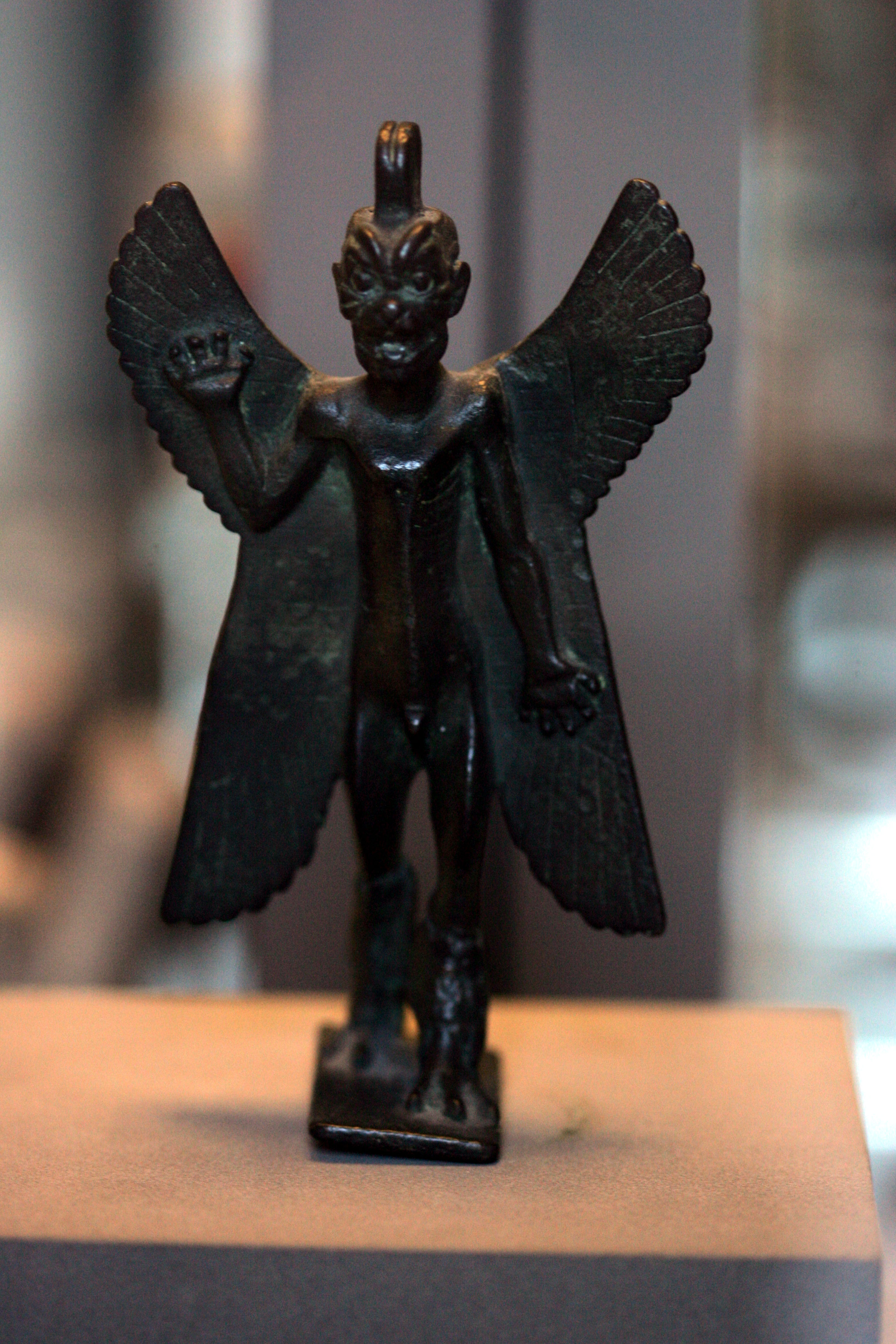 ArtistUnknownDescription Pazuzu Bronze, first millenium BCE Dimensions15cm high, 8.60cm wide, 5.60cm thickCurrent location (Inventory)Louvre Museum Native nameMusée du LouvreLocationParisCoordinates48° 51′ 37″ N, 2° 20′ 15″ E Established1793Website control : Q19675 VIAF: 257711507 ISNI: 0000 0001 2260 177X ULAN: 500125189 LCCN: n80020283 NLA: 35912436 WorldCat Richelieu, ground floor. Mésopotamie - Syrie du Nord. Assyrie : Til Barsip, Arslan Tash, Nimrud, Ninive, Room 6, display case 4Accession numberMNB 467Credit lineBought in 1872ReferencesLouvre.frSource/PhotographerRama Pazuzu Bronze, first millenium BCE